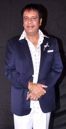 colors indian telly awards